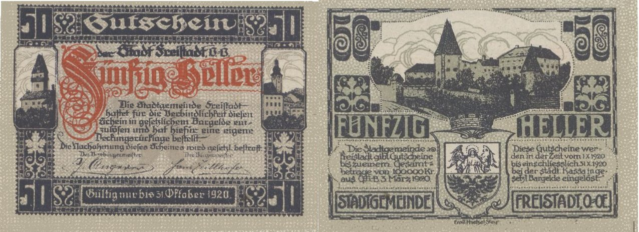 Notgeld (Emergency Money) issued from the municipality Freistadt, Upper Austria, in 1920